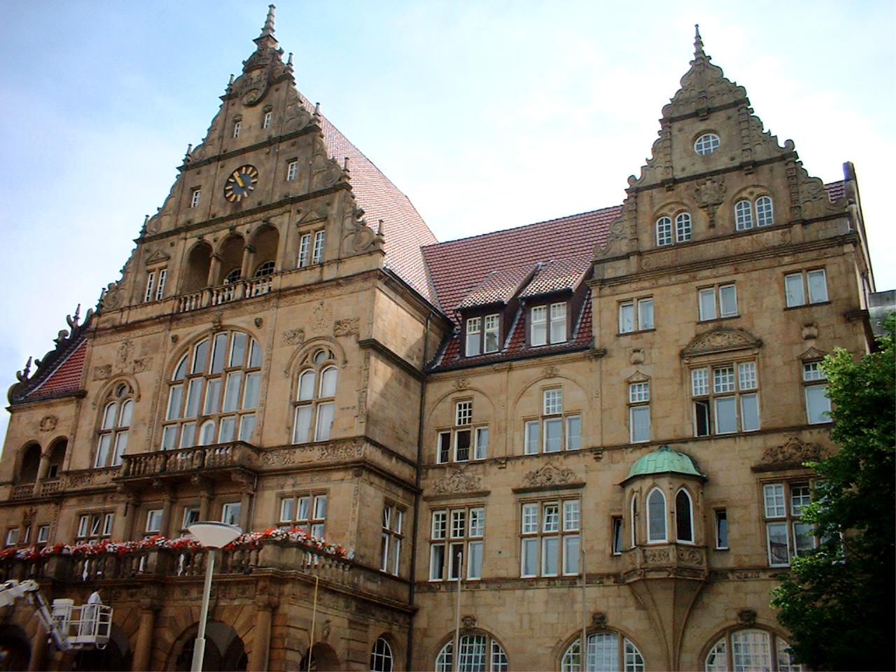 Bielefeld, Germany: Historical Town hall